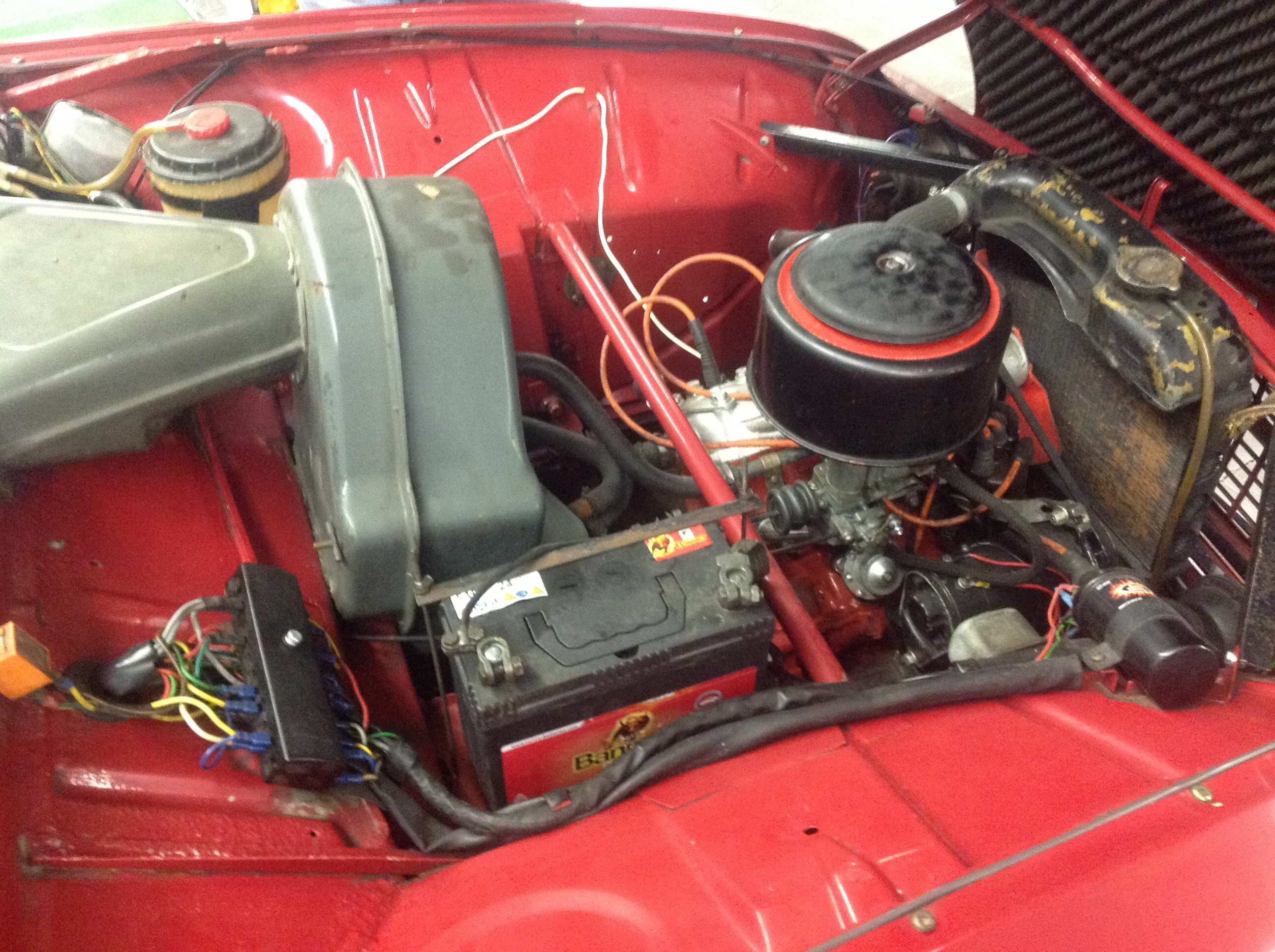 2 stroke 841cc 3-cylinder